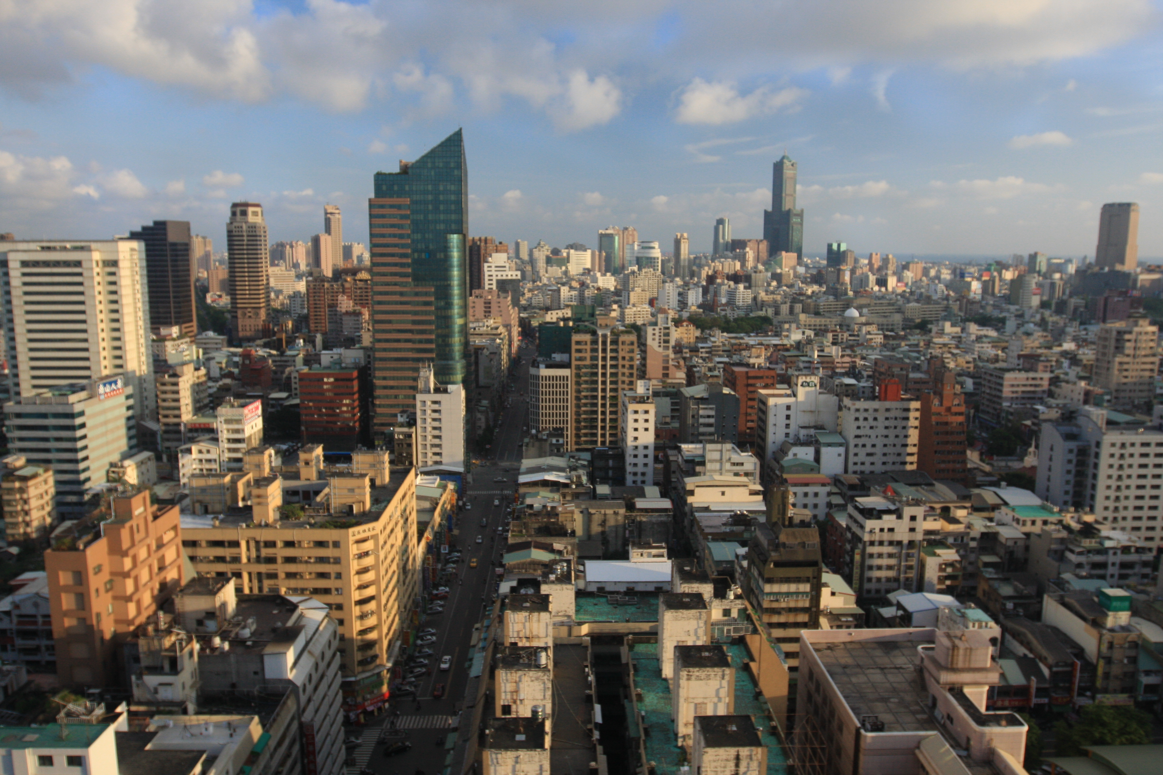 Kaohsiung City